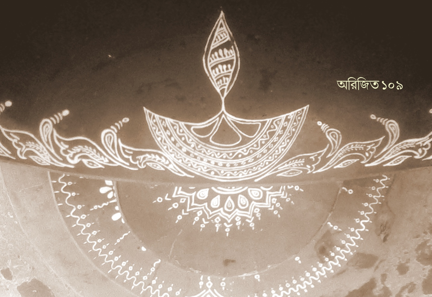 In Bengal in all occasion we usually draw an alpana in front of door and every possible place. This is image of such an alpana drawn on the occation of Saraswati puja.